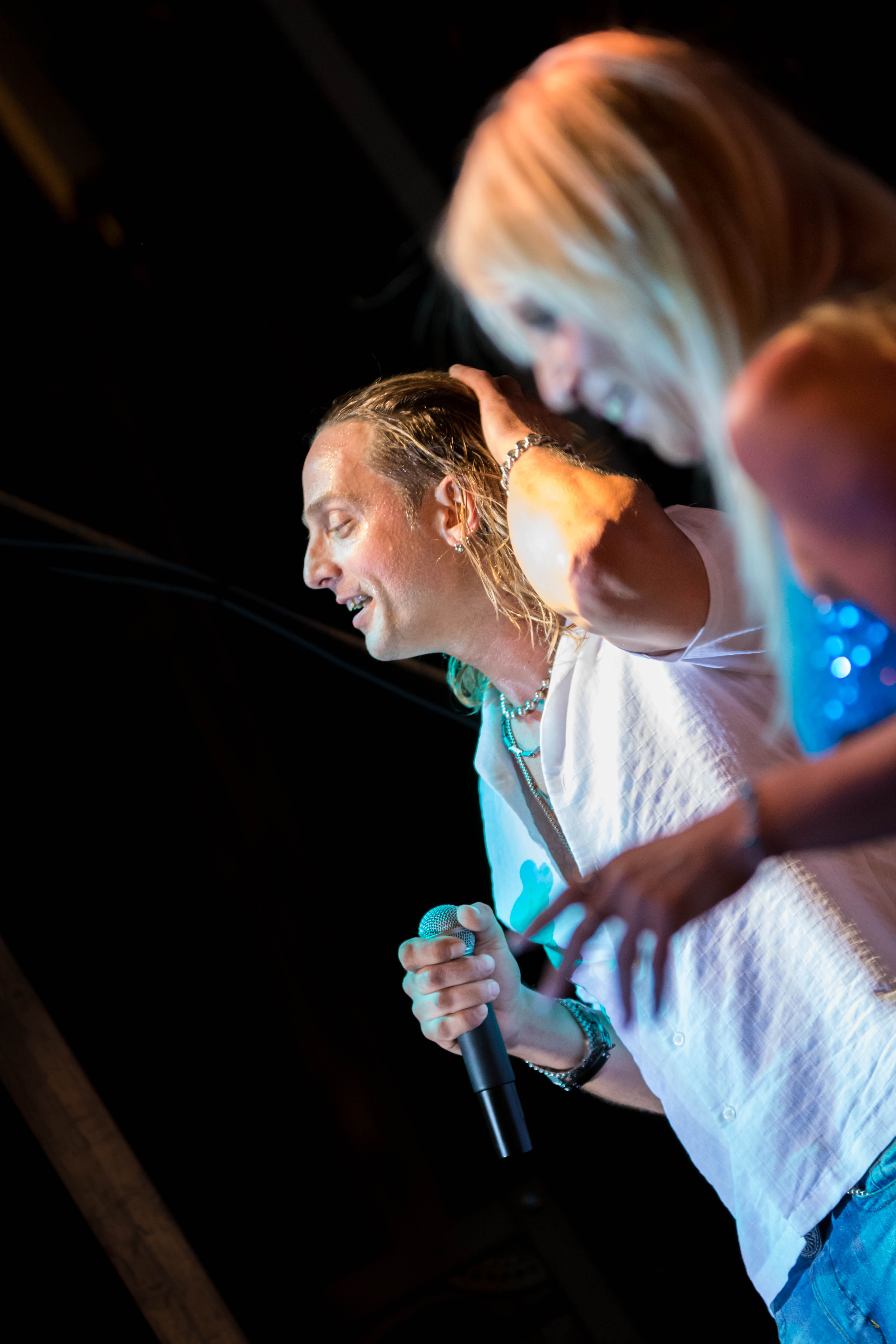 Lime performing in New York City